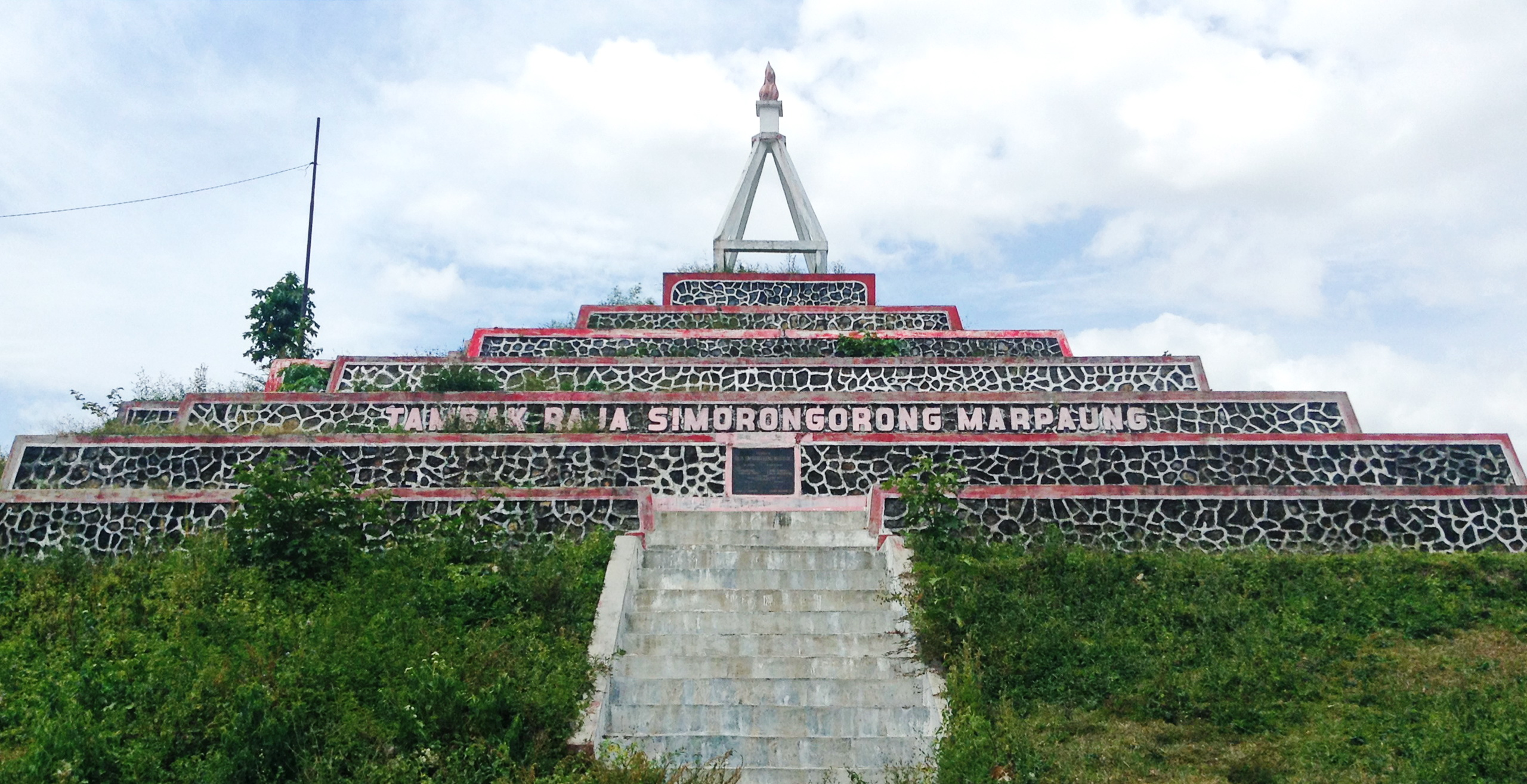 Monument of Marpaung Simorongorong clan in Sipallat (Narumonda VI), Siantar Narumonda, Toba Samosir